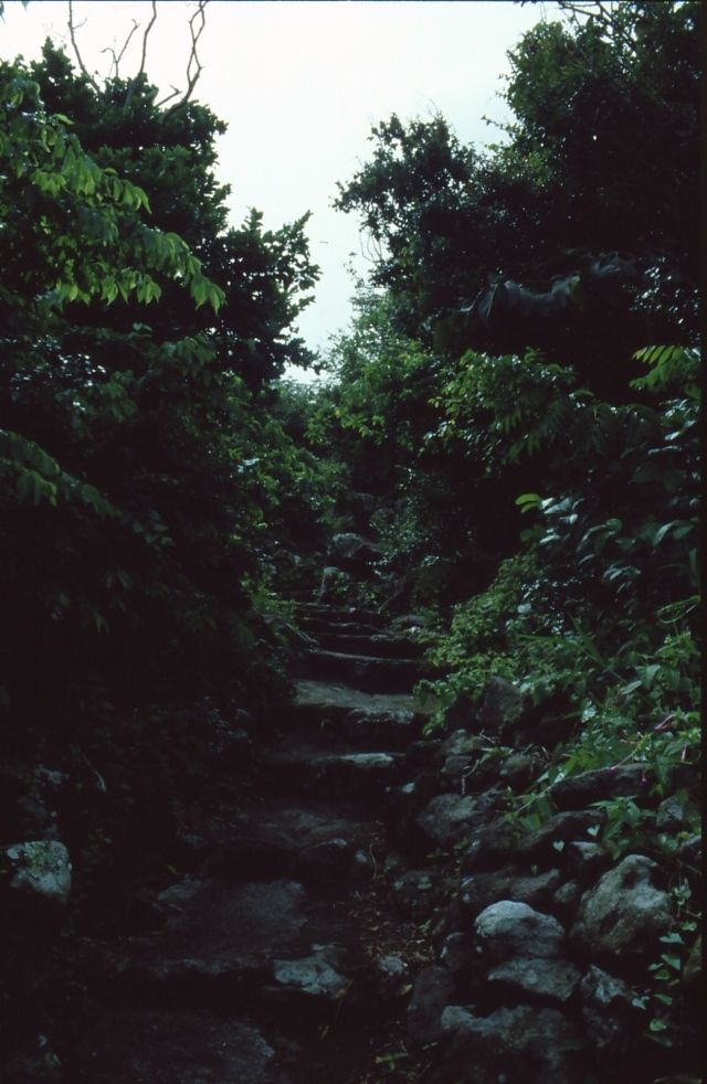 Picture of the trail to the top of the Mount Scenery of the island Saba. Taken by me in 2001 during holidays.